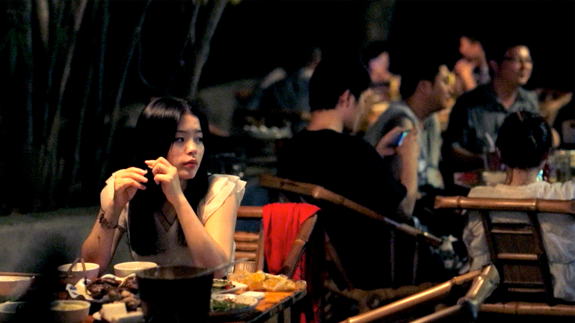 Xia Ruihong in Ni Jing Thou Shalt Not Steal (a film by Roberto F. Canuto & Xu Xiaoxi)